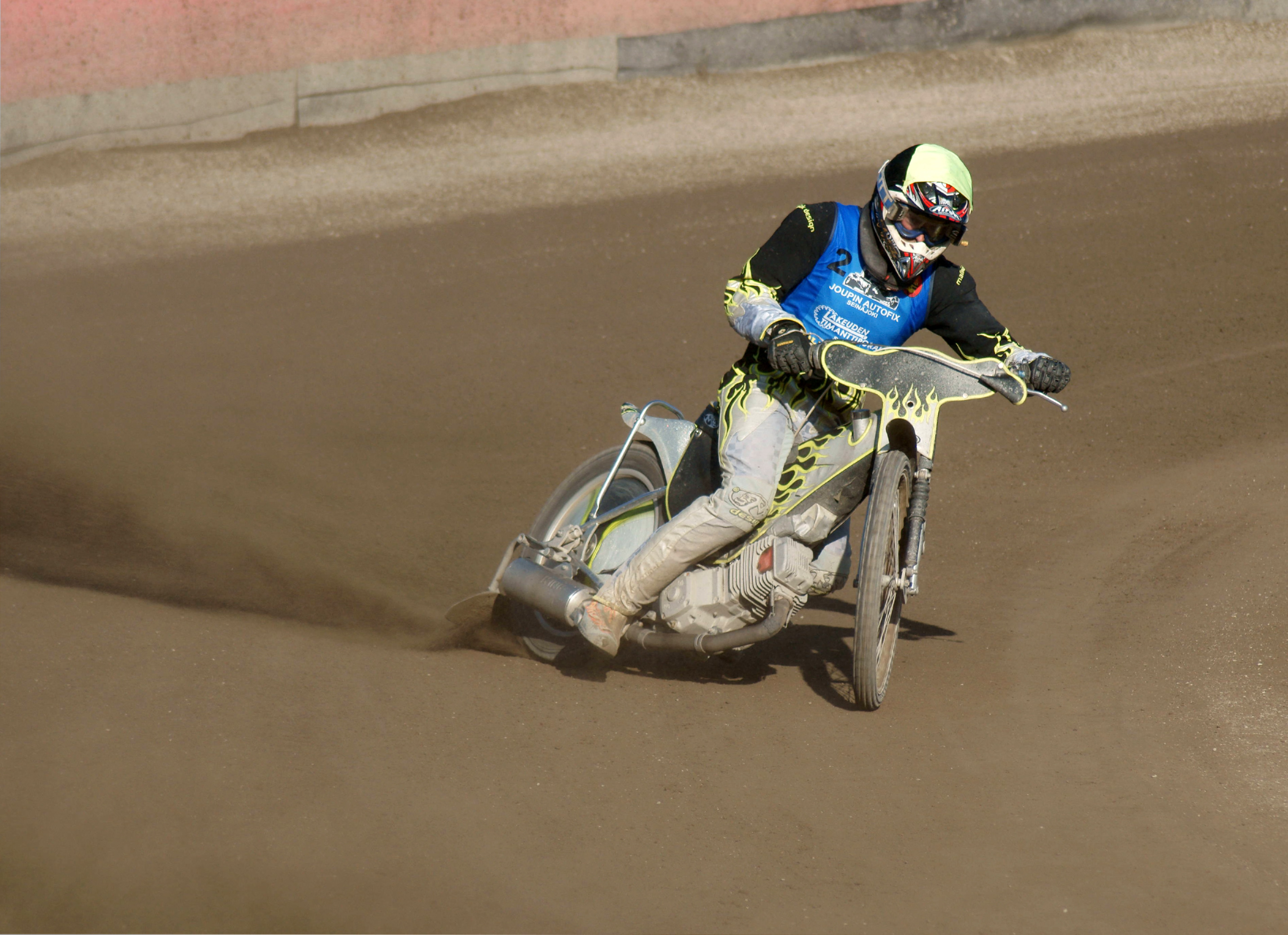 Speedwayrider Rene Lehtinen (team Kotkat, Seinäjoki) riding in Speedway Extraliiga -competition in Yyteri speedway venue.